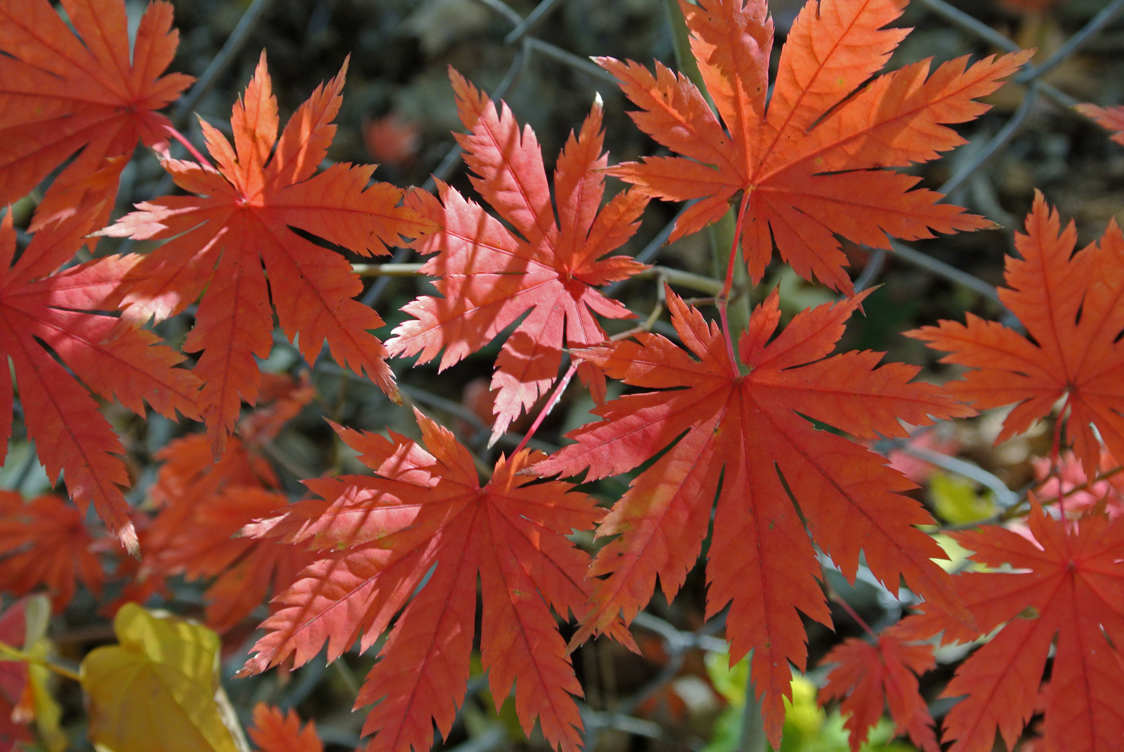 Acer pseudosieboldianum in the garden of botanist Robert R. Kowal, Madison, Wisconsin